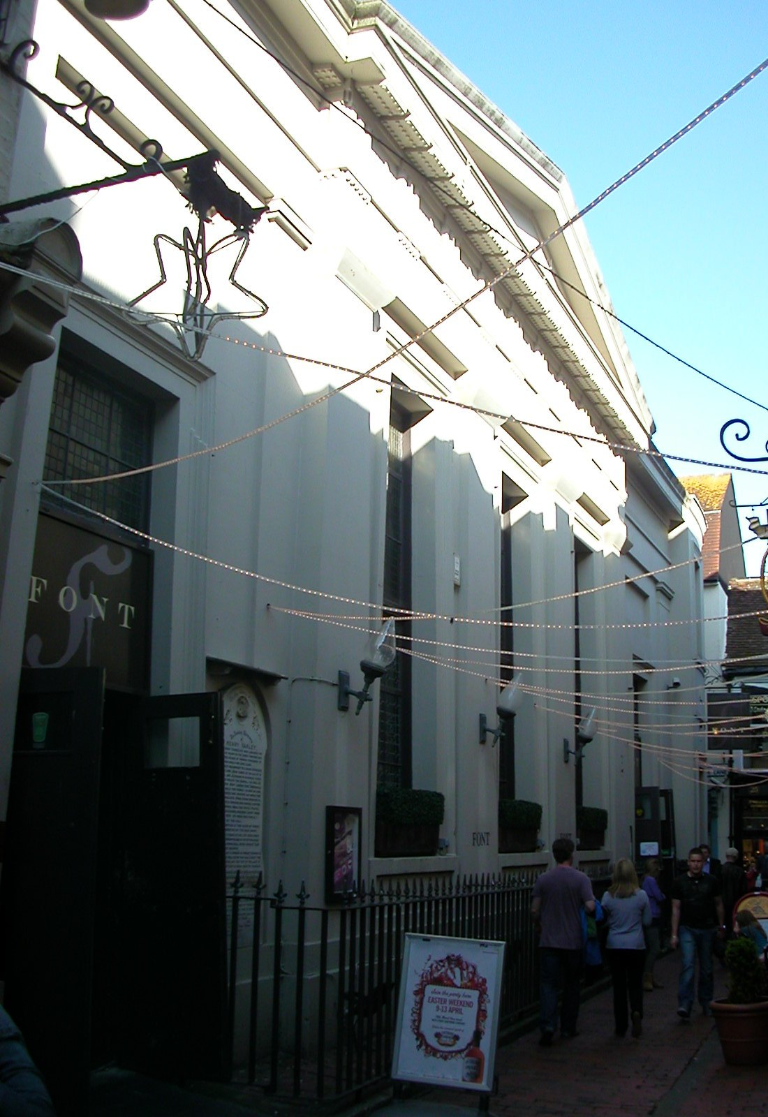 Former Nonconformist chapel in Union Street, Brighton, England, built in 1825. Later an Independent chapel, the Union Free Church, a miners' missionary chapel and an Elim Congregational church. Now a pub called the "Font & Firkin".